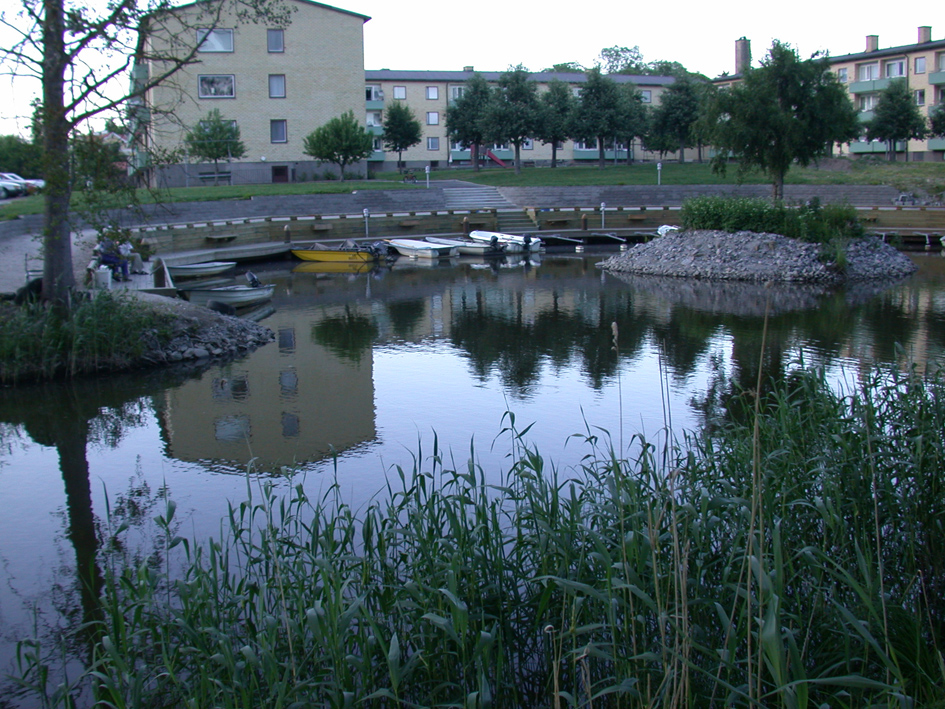 Vingåker harbour in Vingåker in Sweden.